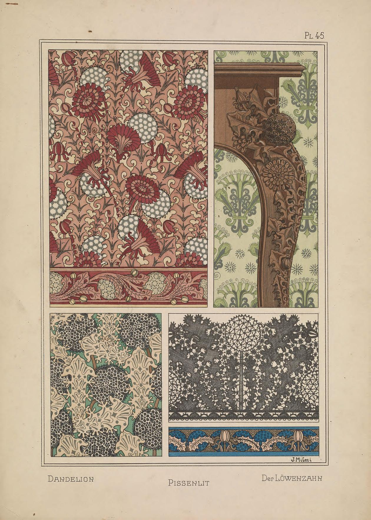 Planche 45 de "La plante et ses applications ornementales"